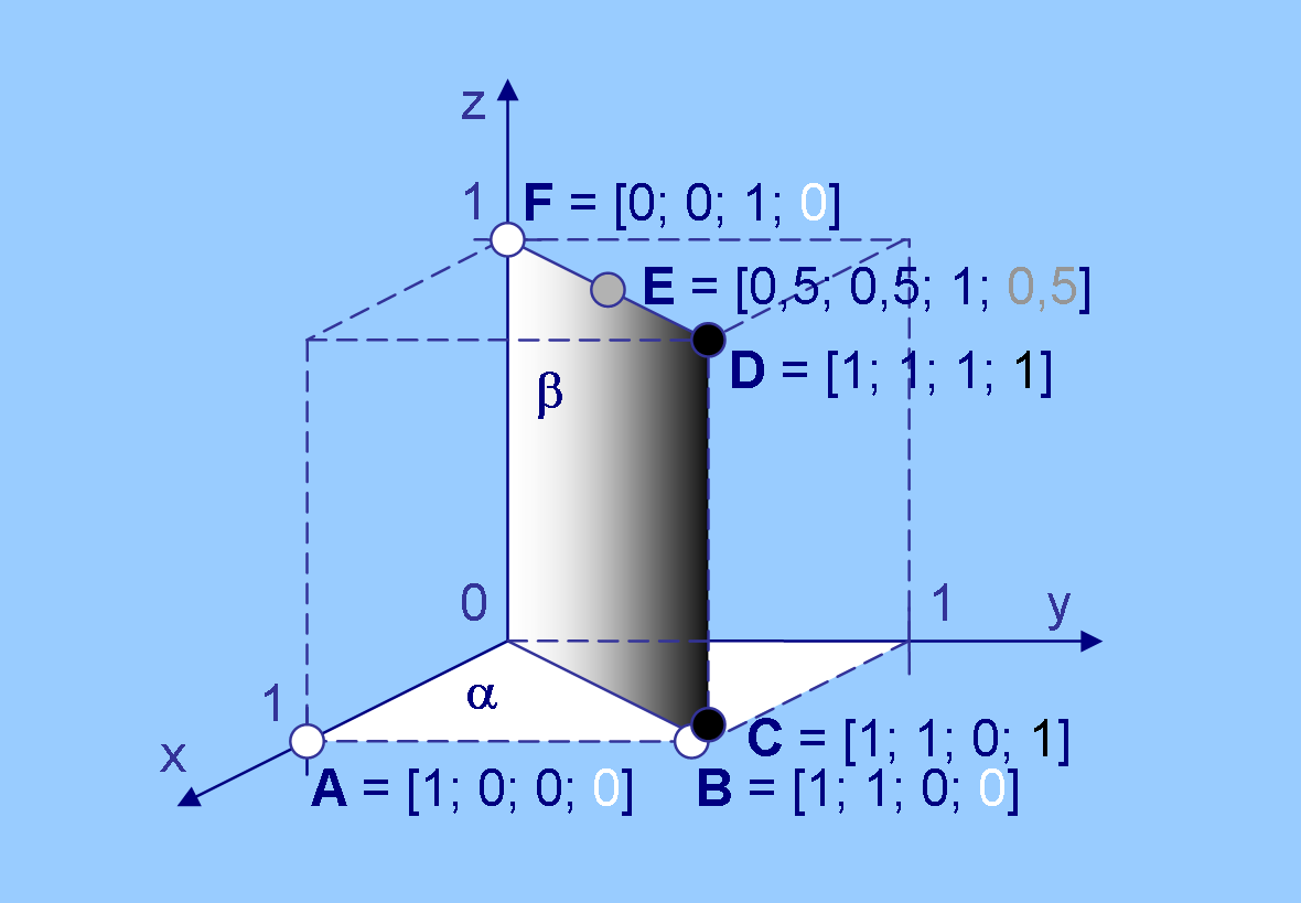 Intersection of two planes \alpha and \beta in four dimensions. The fourth dimension is represented by colour, from 0 (white) to 1 (black). (In three-dimensional world only the white colour could be observed.) Point B is part of the plane \alpha, point C is part of the plane \beta, these two points differ in the fourth coordinate. The intersection of the planes is the point with coordinates [0; 0; 0; 0].